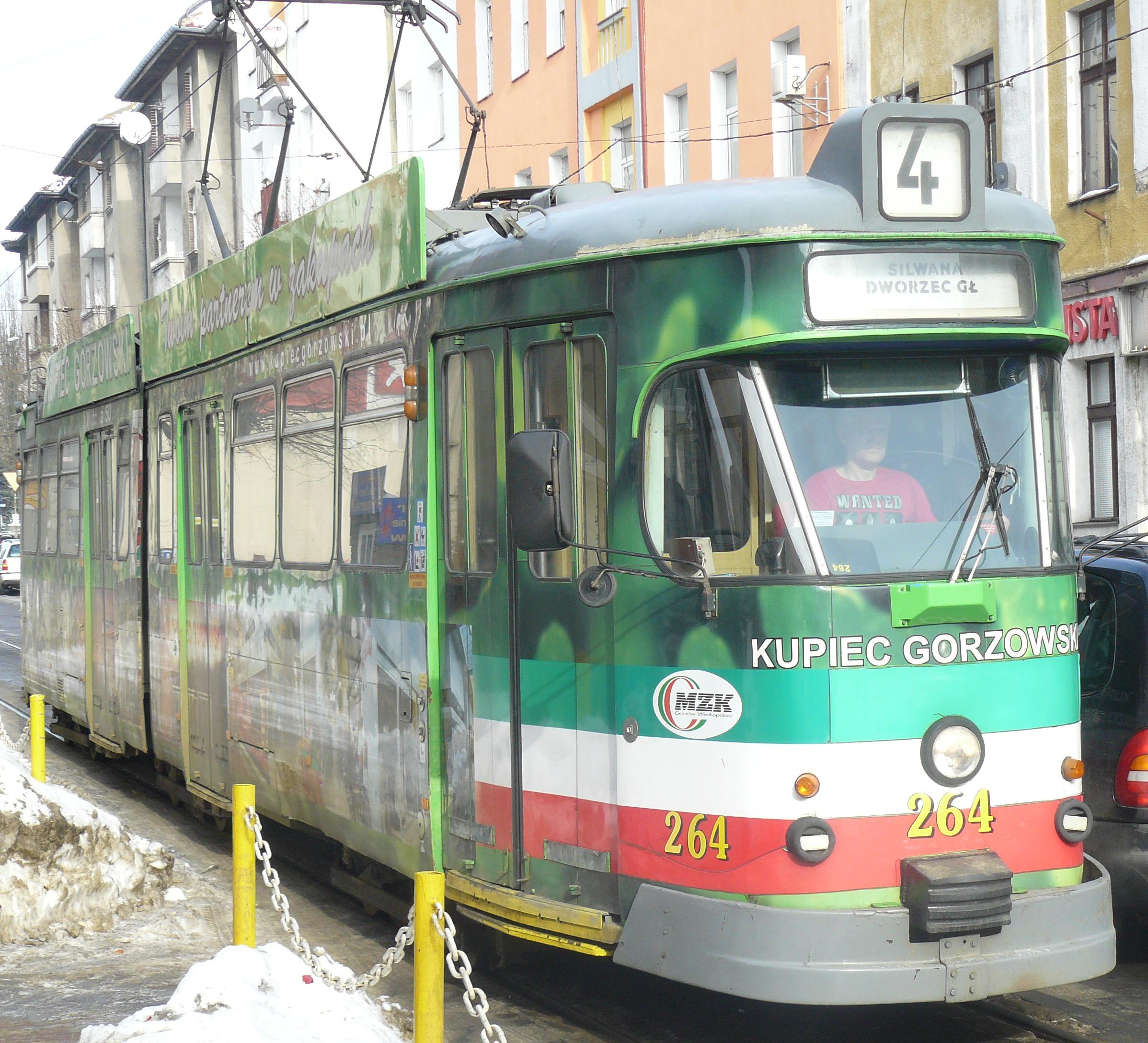 Gorzów Wielkopolski (Poland) – tram on Dworcowa Street.